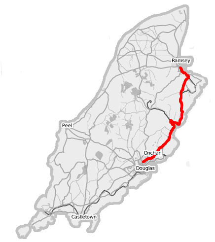 This map may be incomplete, and may contain errors. Don't rely solely on it for navigation.